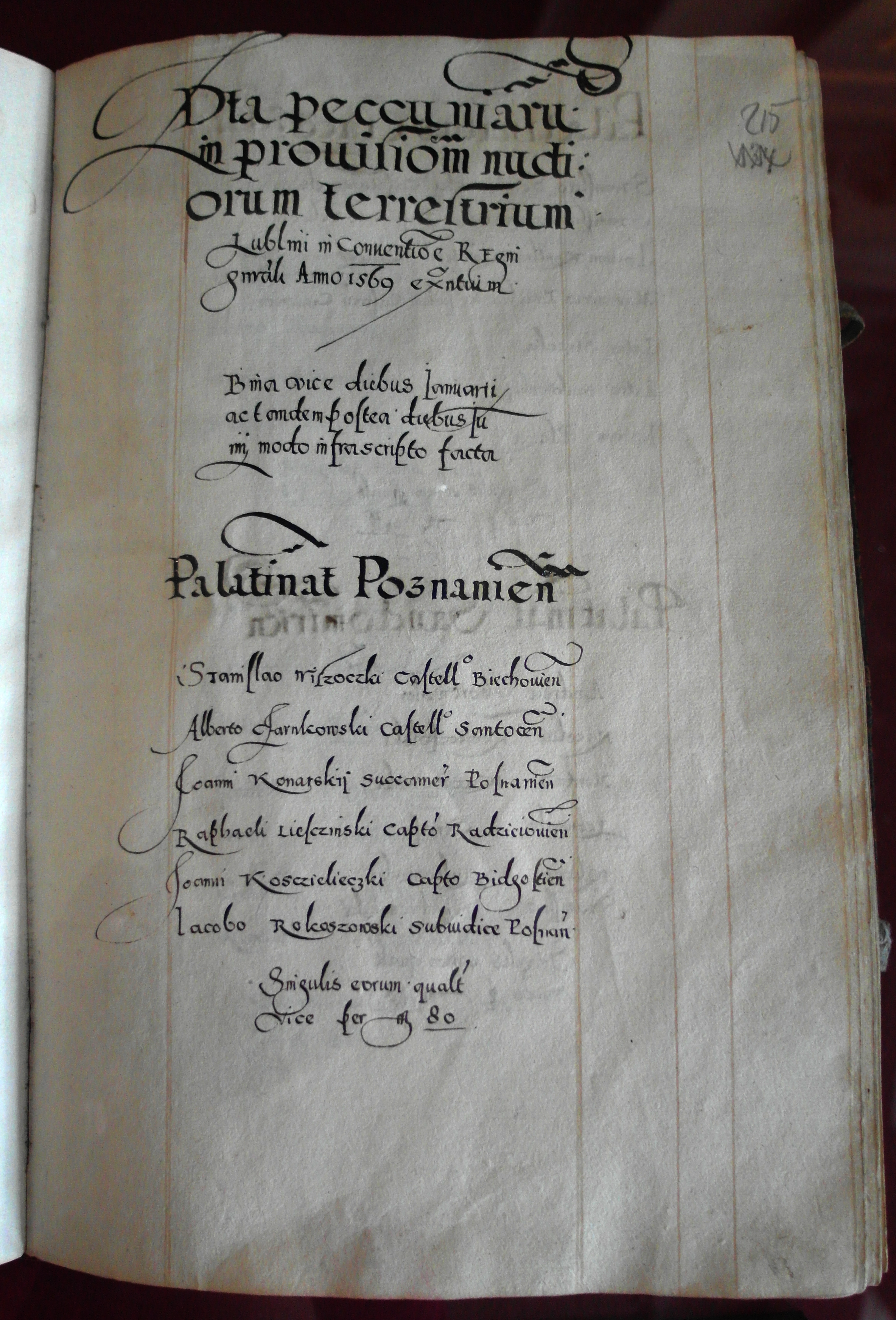 Disbursement register of per diems for envoys of the Crown participating in Sejm of Lublin 1569